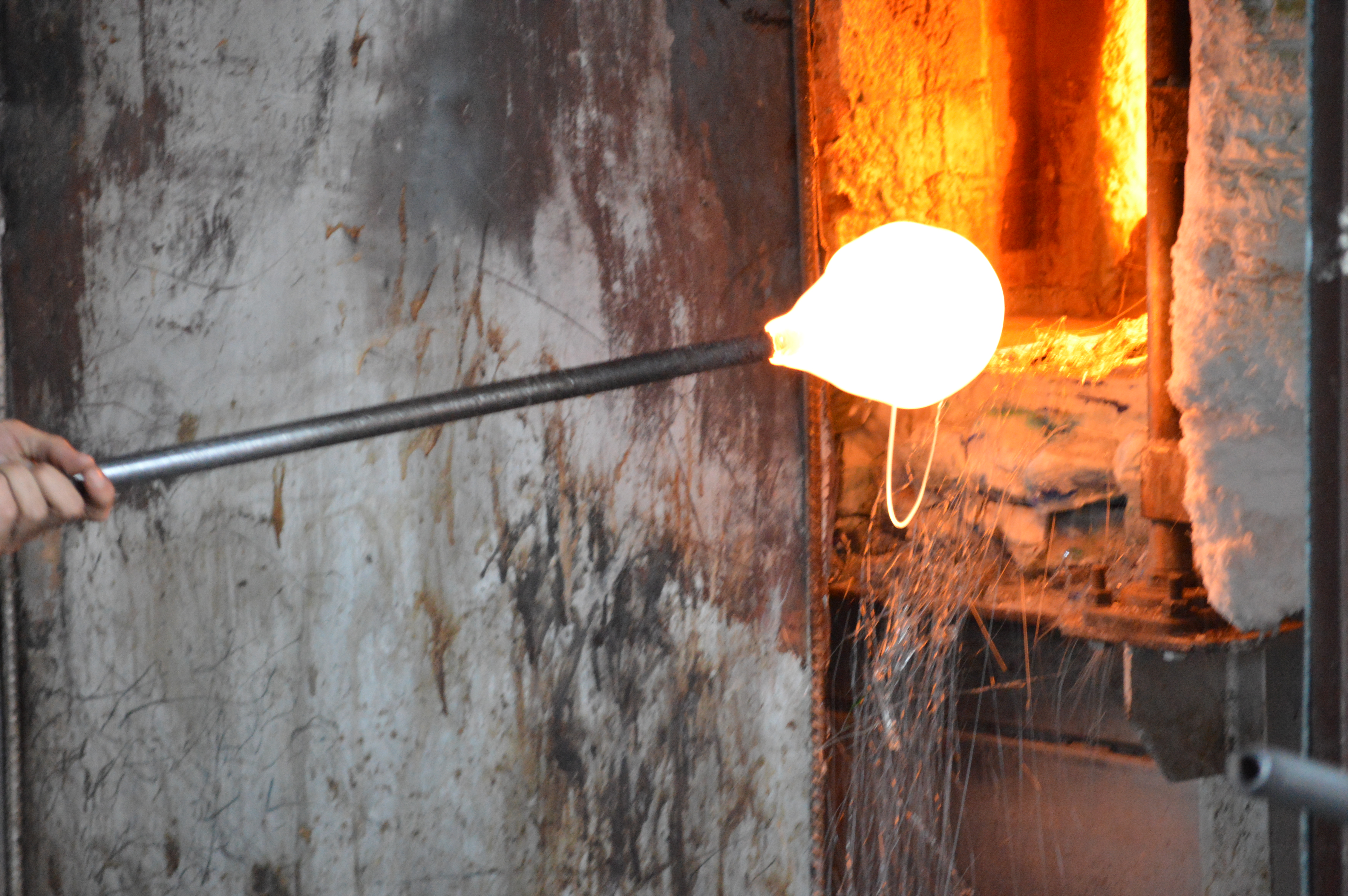 Molten glass being taken out of a kiln at the Cristacolor glass blowing workshop open to public viewing in Tonalá, Jalisco, Mexico